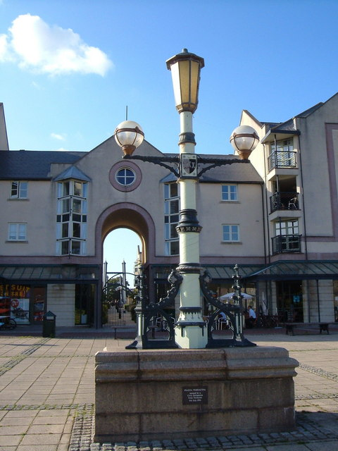 Piazza Terracina, Exeter. Named after one of Exeter's twin towns (Terracina is 100 km from Rome). The square is bounded by the canal basin, the River Exe, Haven Road, and on this side, modern flats on Haven Banks.